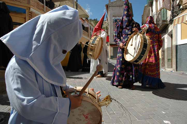 Tamboristas desde niños